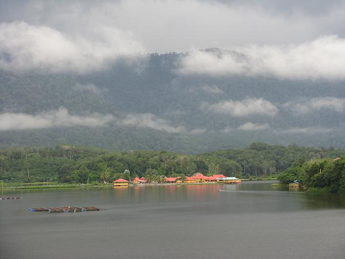 Raban Lake, Lenggong, Hulu Perak, Perak, MalaysiaBahasa Melayu: Tasik Raban, Lenggong, Hulu Perak, Perak, Malaysia